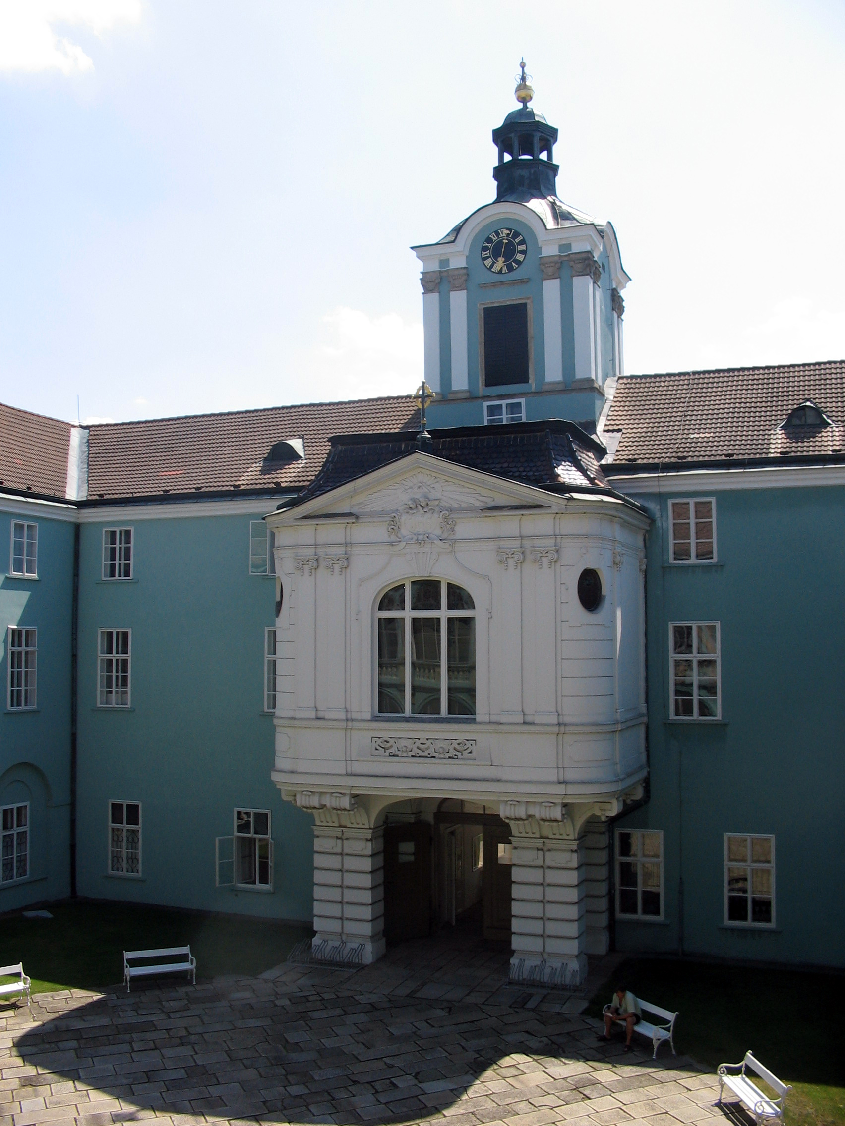 Dačice chateau.(Czech republic)